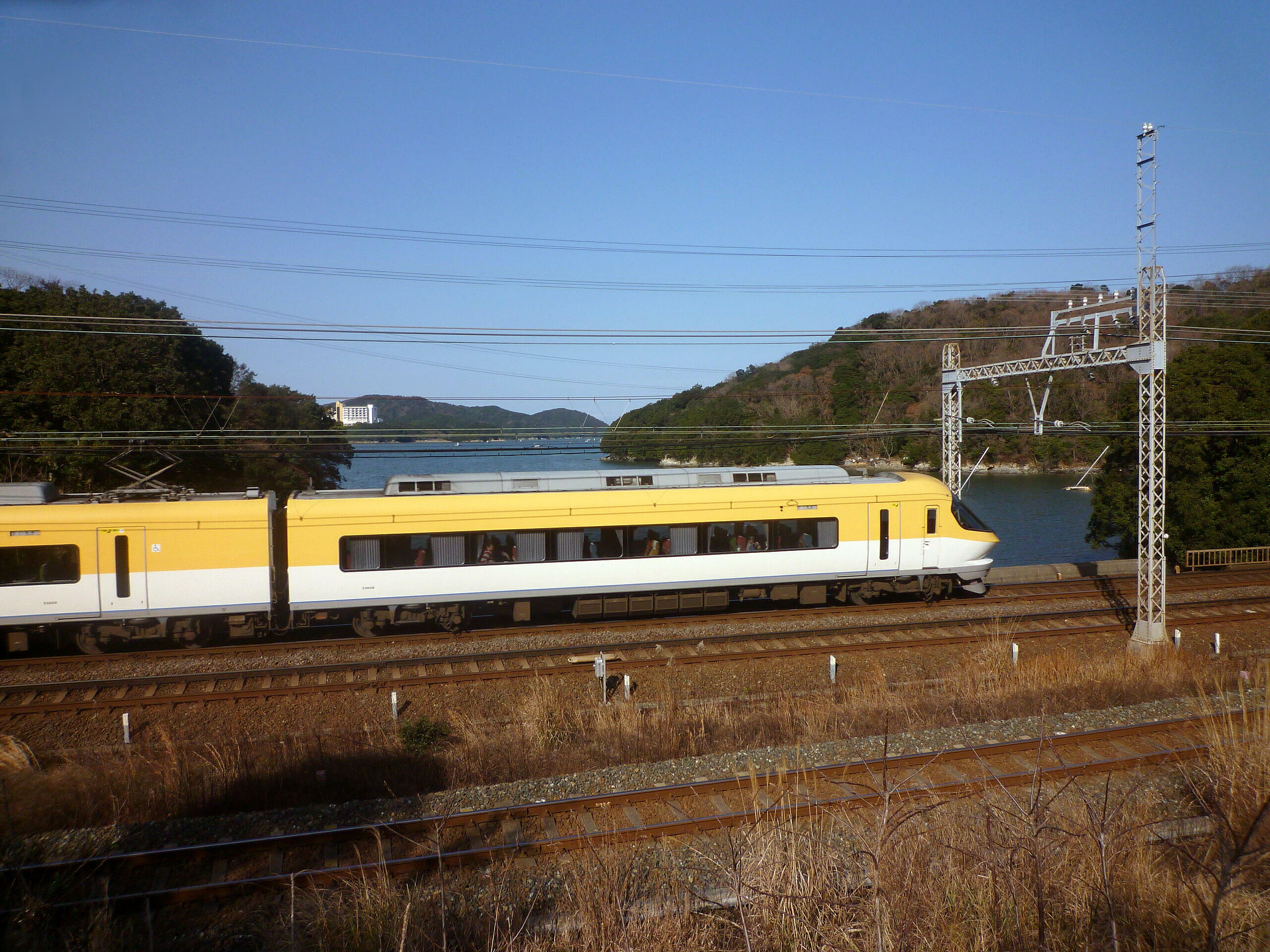 Kintetsu Toba Line."Ise-Shima Liner" that operates between Ikenoura and Toba.The railway track in this side is Sangū Line.